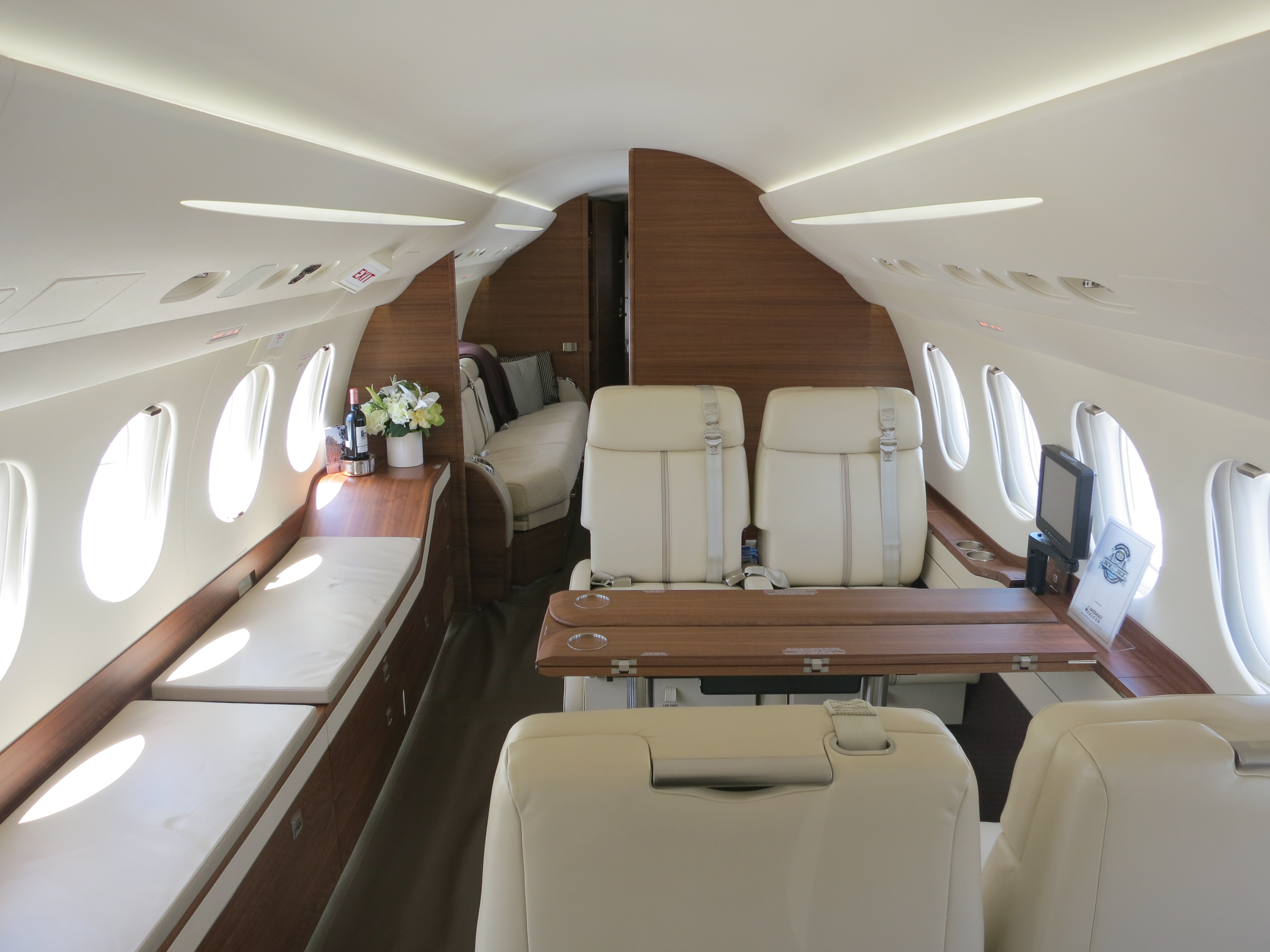 Dassault Falcon 7X forward cabin interior